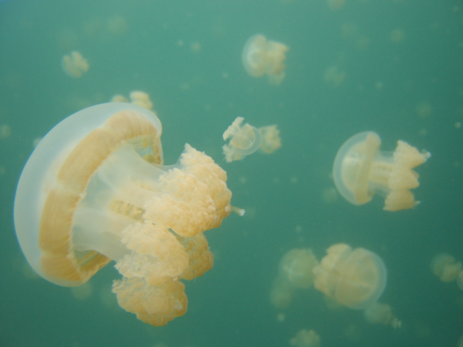 A field of jellyfish floating in Jellyfish Lake, Palau.